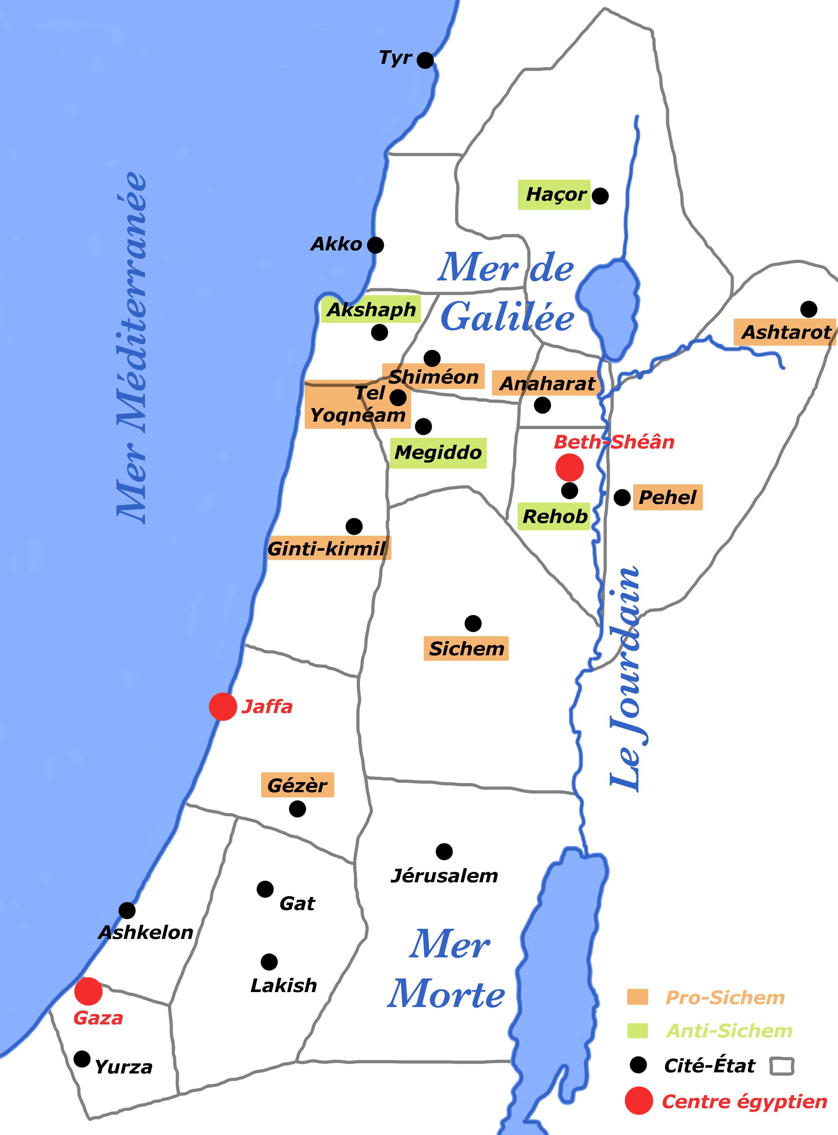 Map of Canaan at Recent Bronze Age, established from the Amarna Letters, completed with a petrographic study of the clay and the results of archaeological excavations. Drawn from Israël Finkelstein, ‘’Le royaume biblique oublié’’, p.34, éditions Odile Jacob, 282 pages (26 avril 2013).